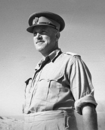 Brigadier Reginald Miles at Baggush, Egypt, commanding NZ Brigade, while General Auchinleck reviews NZ troops sometime in 1940/1941. Brigadier Reginald Miles. New Zealand. Department of Internal Affairs. War History Branch :Photographs relating to World War 1914-1918, World War 1939-1945, occupation of Japan, Korean War, and Malayan Emergency. Ref: DA-02173-F. Alexander Turnbull Library, Wellington, New Zealand. The creator of this work was most likely an official photographer of the NZ Military Forces and thus copyright in this work probably rests or rested with the Crown. The Crown has released this work under the CC-BY 3.0 unported license. Refer to source website for details: This work's copyright expired 50 years after creation in New Zealand and probably also in countries following the rule of the shorter term.